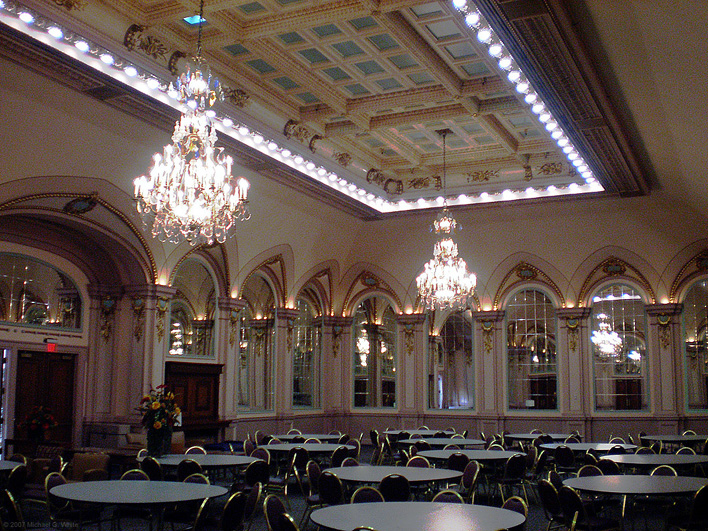 A ballroom inside William Pitt Union at the University of Pittsburgh. photo by Michael G White